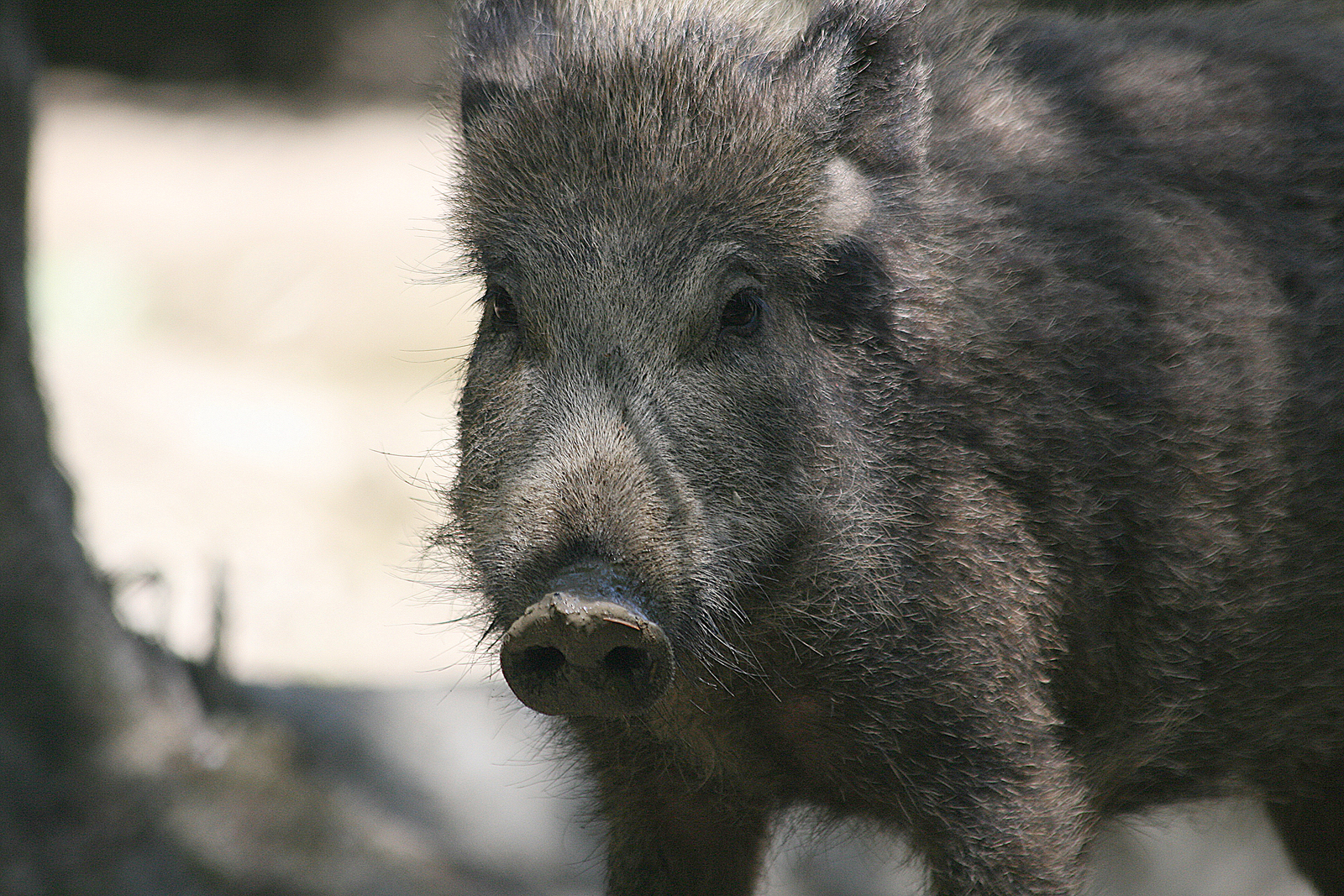 Description: The Wild Boar (Sus scrofa) is the wild ancestor of the domestic pig. As shown in his natural habitat.